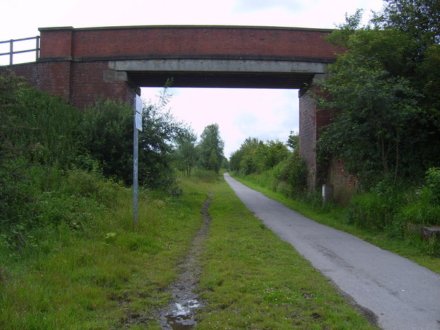 Bridge across former East Coast Main Line alignment between Naburn and Escrick. The bridge lets farm traffic cross the Sustrans Route 65 cycle track.